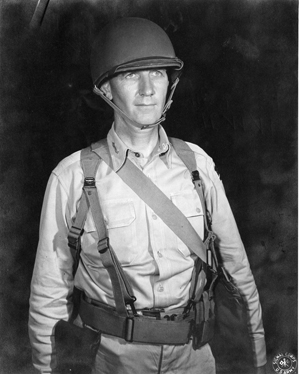 MG Horace L. McBride, commander of the 80th Infantry Division, U.S. Army, in Germany during World War II.